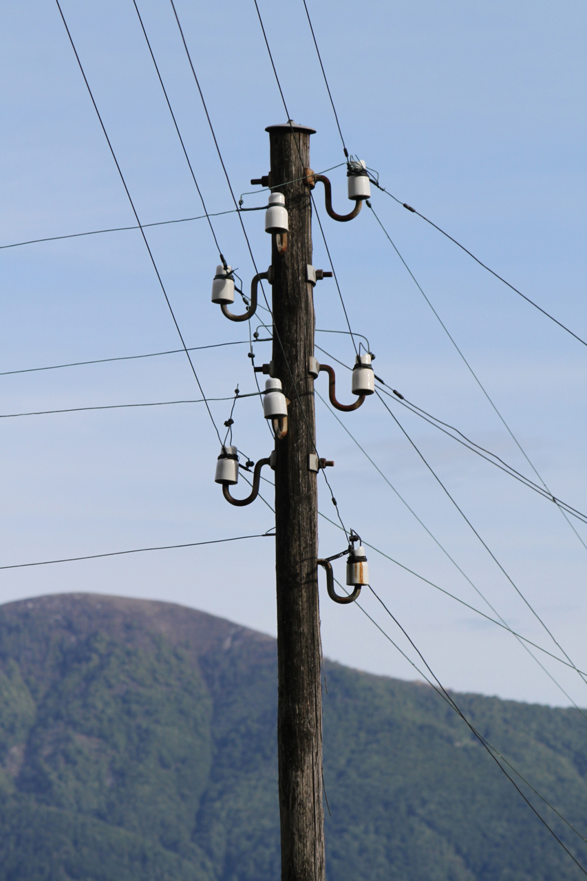 Utility pole at Tegna.